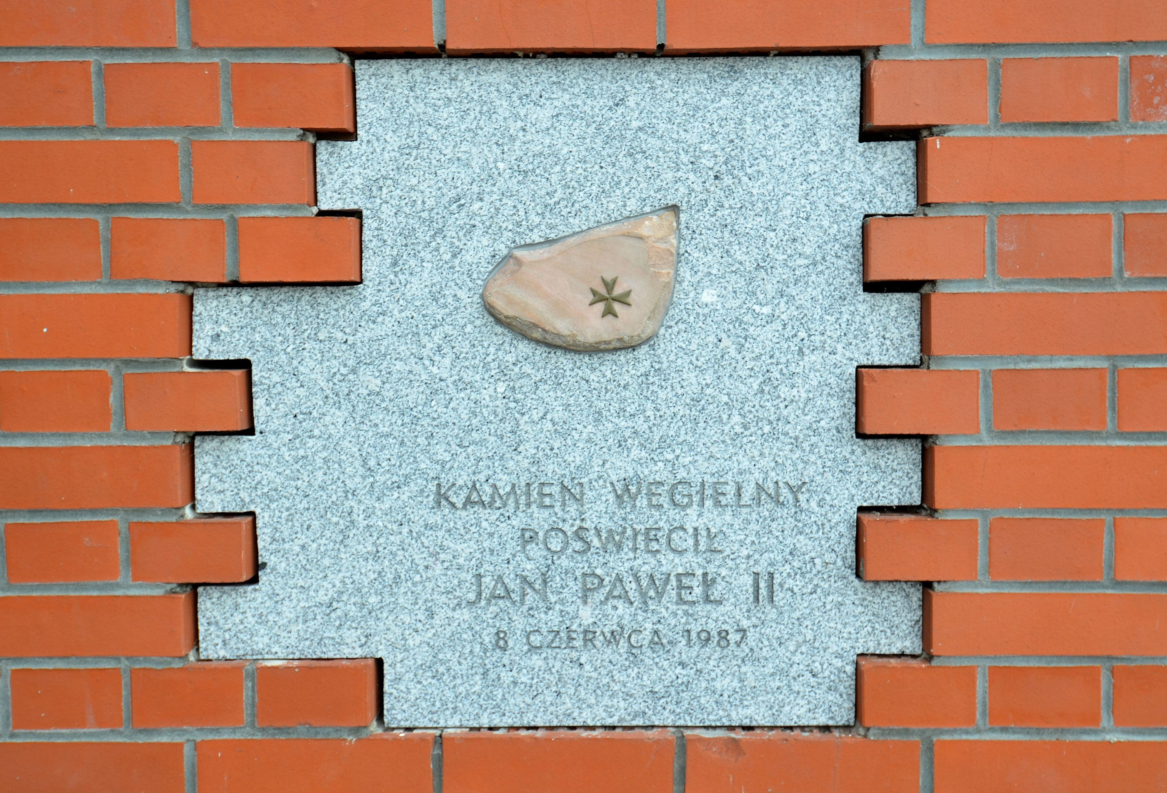 Plaque commemorating consecration of the cornerstone near the entrance to the Saint Thomas the Apostle church in Warsaw